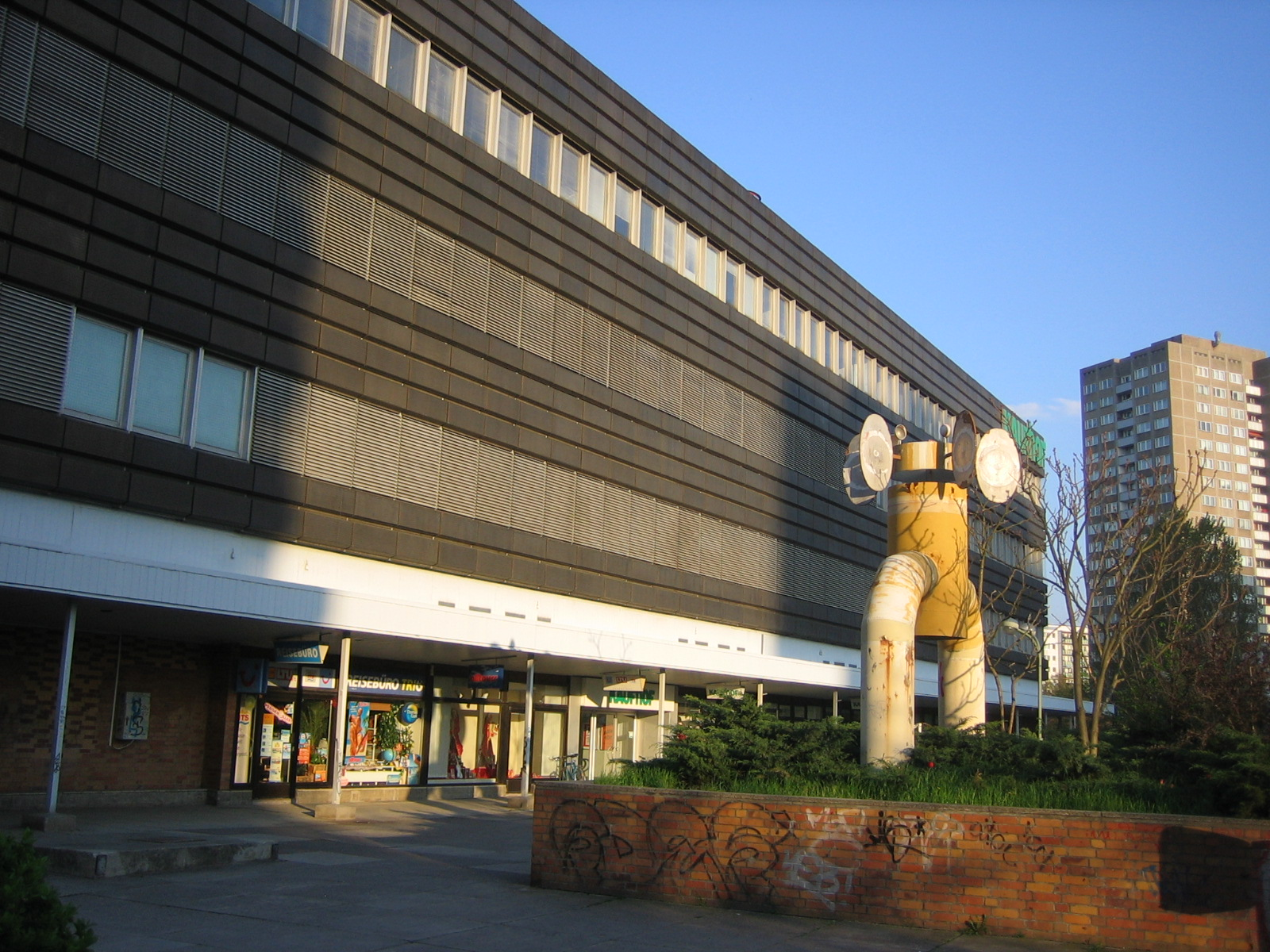 Detail department store "Konsument Warenhaus") and ventiduct